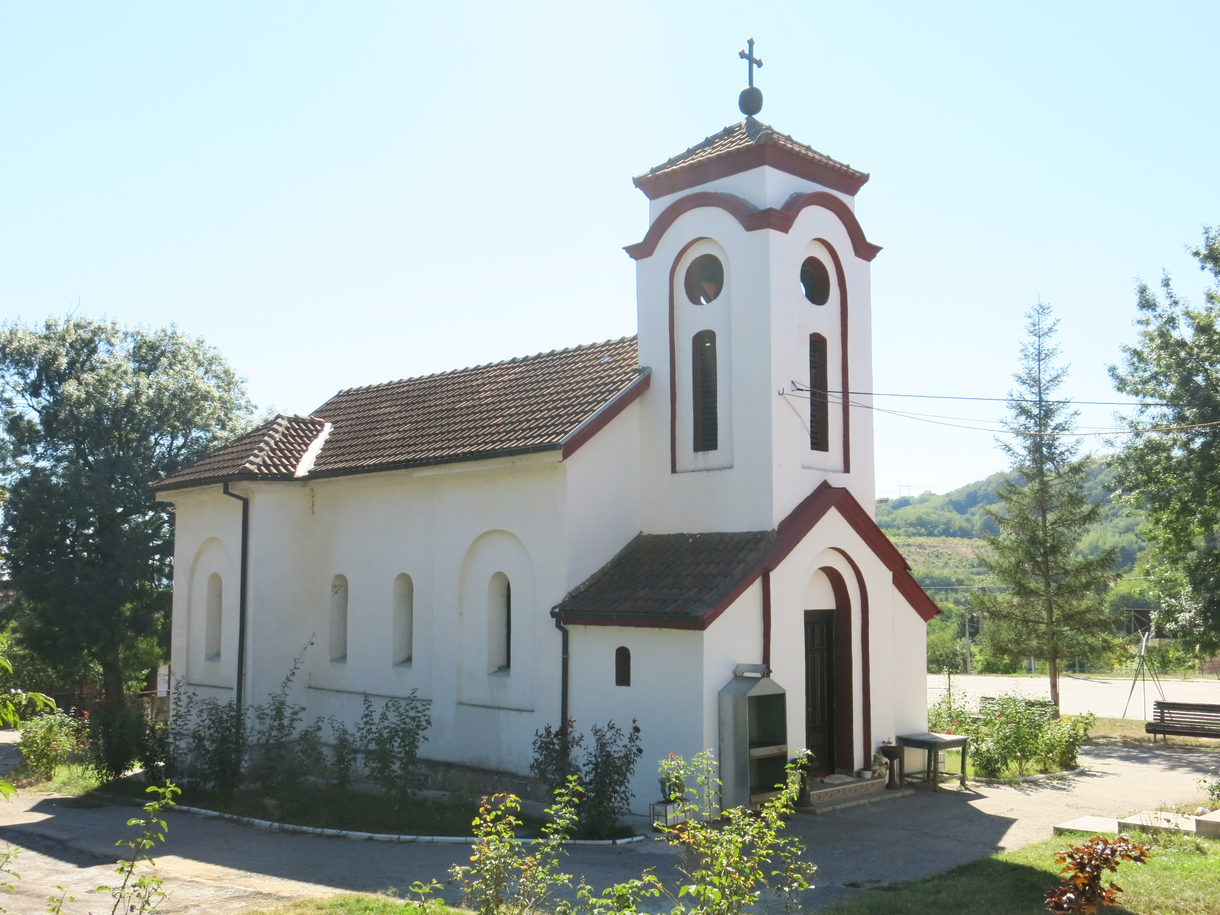 Zaklopača, Holy Trinity Church